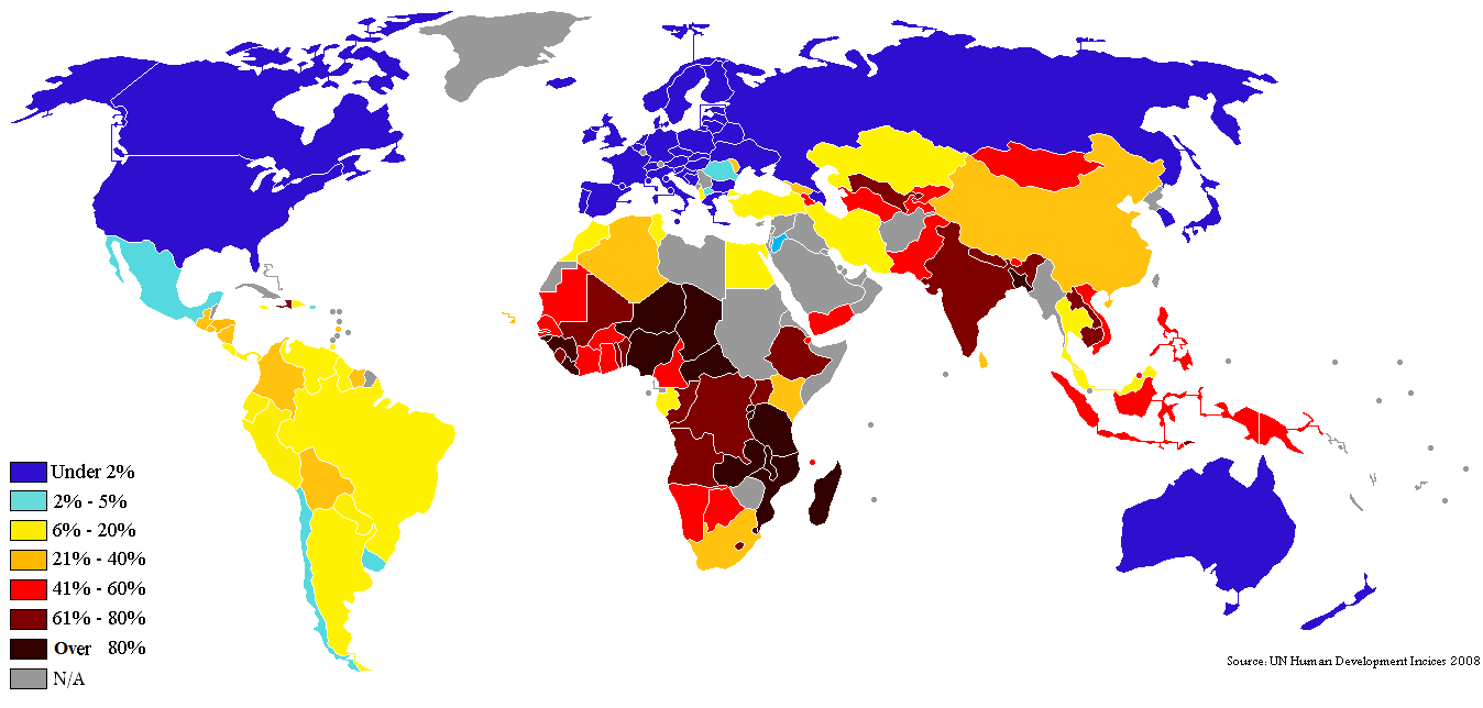 World map showing the percent of national populations living on less than $2.00 per day. UN Estimates 2000-2007